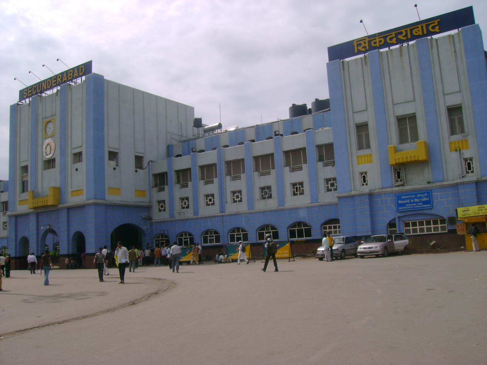 Secunderabad Railway Station. This Image was uploaded by C.Chandra Kanth Rao in Telugu Wikipedia. I have just uploaded it to Commons with the same Copyright Status.